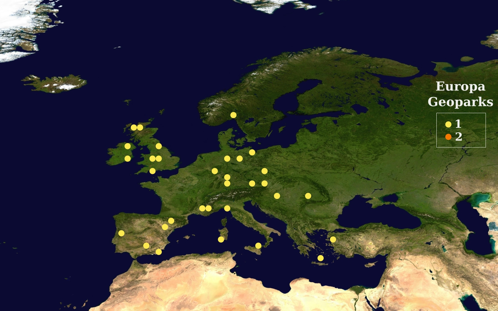 Europe locator map for the European Geoparks Network. The map shows all 32 parks in 13 European countries in the network as of March 2008. These are, from west to east (left to right), and then from north to south (top to bottom): PT:Naturtejo Meseta Meridional UK:Marble Arch IE:Copper Coast UK:Northwest Highlands UK:Lochaber ES:Sierras Subbeticas UK:Fforest Fawr UK:English Riviera UK:North Pennines UK:Malvern Hills ES:Cabo de Gata-Níjar ES:Maestrazgo ES:Sobrarbe FR:Luberon FR:Haute Provence DE:Vulkaneifel IT:Sardenia Geominerario DE:Terra-Vita DE:Bergstraße-Odenwald DE:Schwäbische Alb IT:Beigua NO:Gea-Norvegica DE:Harz.Braunschweiger Land.Ostfalen DE:Mecklenburg Ice Age Park AT:Kamptal IT:Madonie CZ:Bohemian Paradise AT:Eisenwurzen HR:Papuk RO:Haţeg GR:Psiloritis GR:Lesvos The dots are coloured yellow for one park, and orange for two parks.